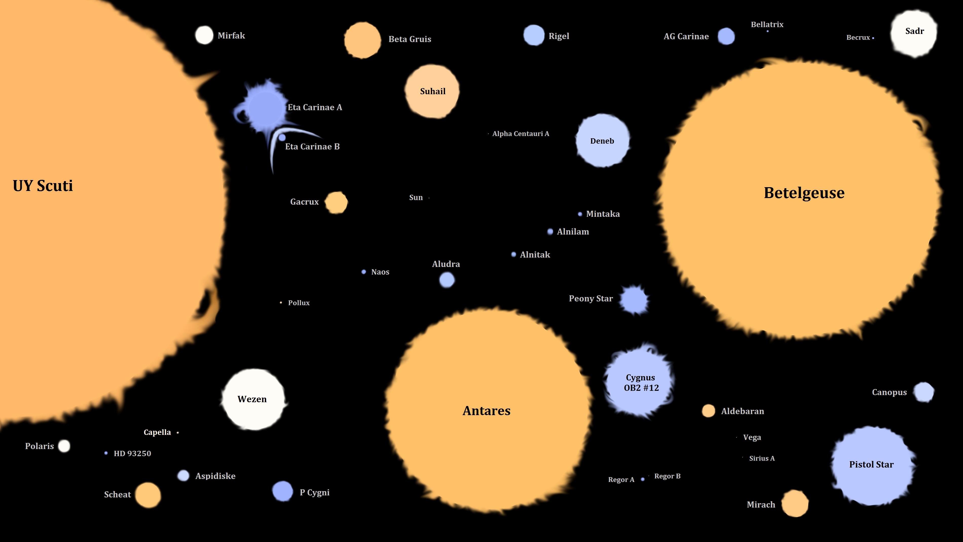 Some of the well-known stars are shown with their apparent colors and relative sizes. Suggested alt-text: Several circles (~25) of different sizes representing well-known stars to scale are shown with their apparent colors. The three largest stars, each occupying about 1/8th of the picture are the orange stars UY Scuti, Betelgeuse, and Antares. The next few large stars are all blue/white in color, including Deneb, Sadr, and Rigel. Many smaller stars are also shown, some orange, some blue/white. A label for the Sun is shown but the star itself is only visible upon zooming in. Relative to Betelgeuse, the Sun is a tiny dot.